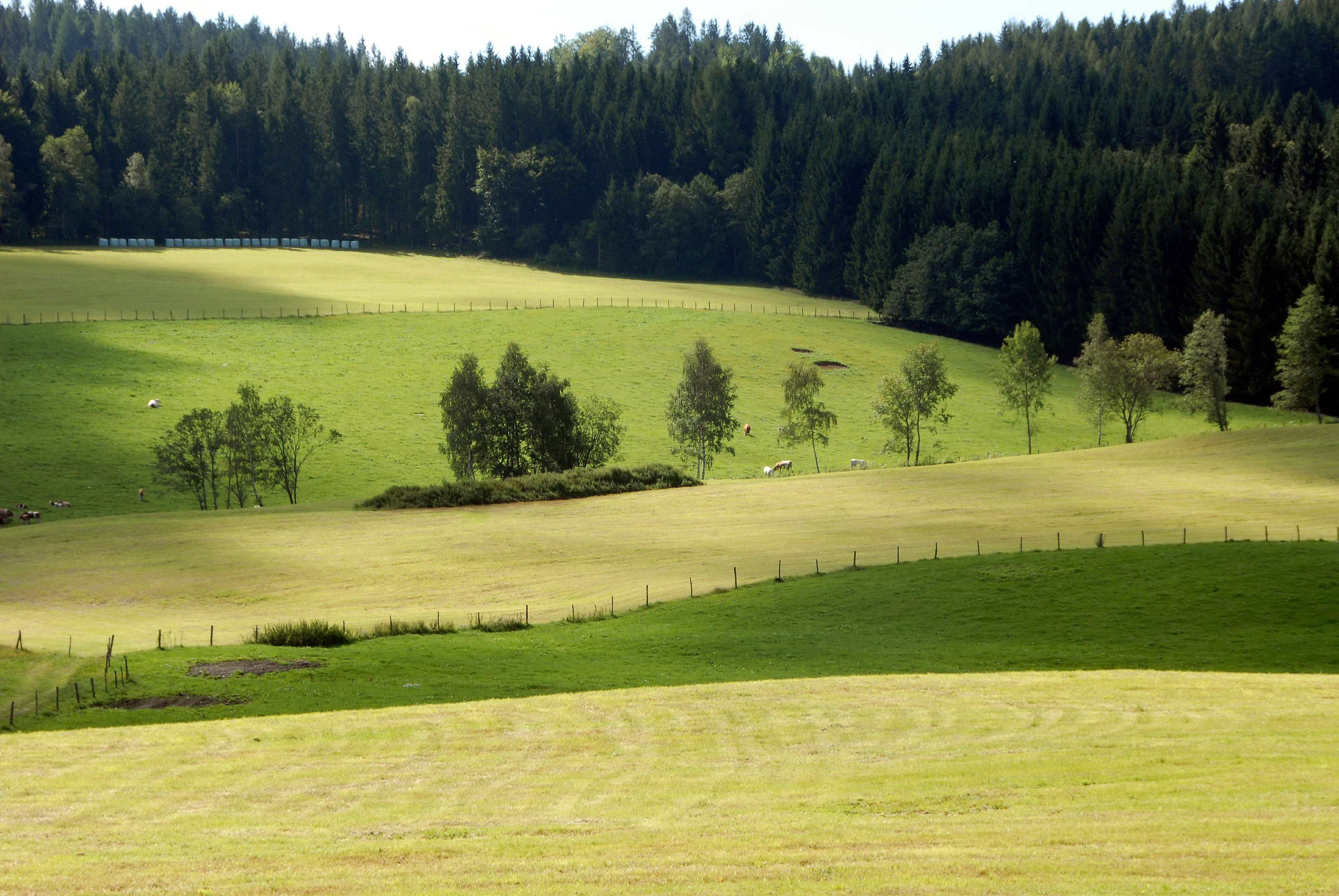 Pastures near the locality Tauern in the municipality Ossiach, district Feldkirchen, Carinthia, Austria